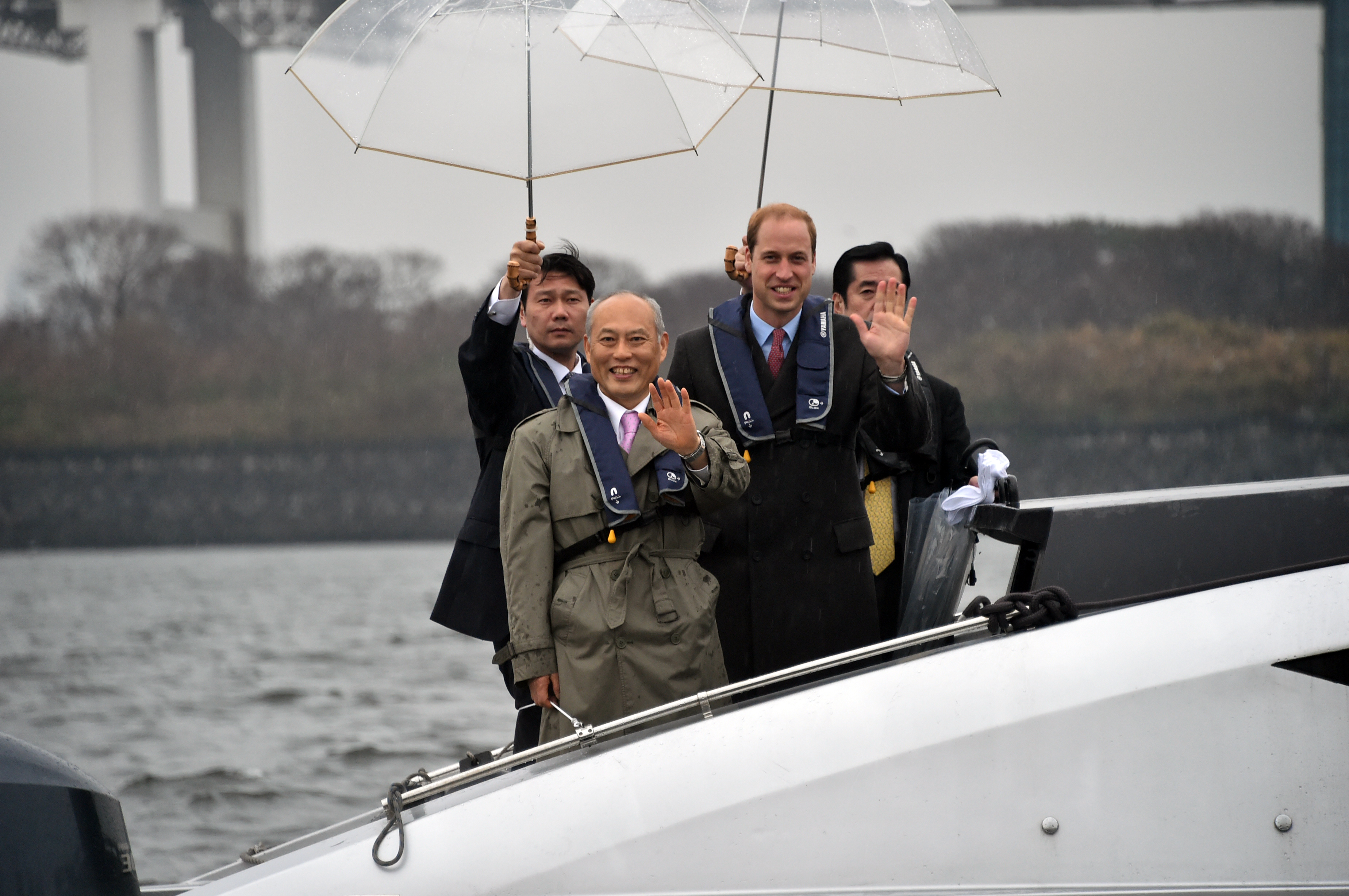 The Duke of Cambridge travels by boat through the Tokyo Bay area with the Tokyo Metropolitan Government Governor Mr Yoichi Masuzoe